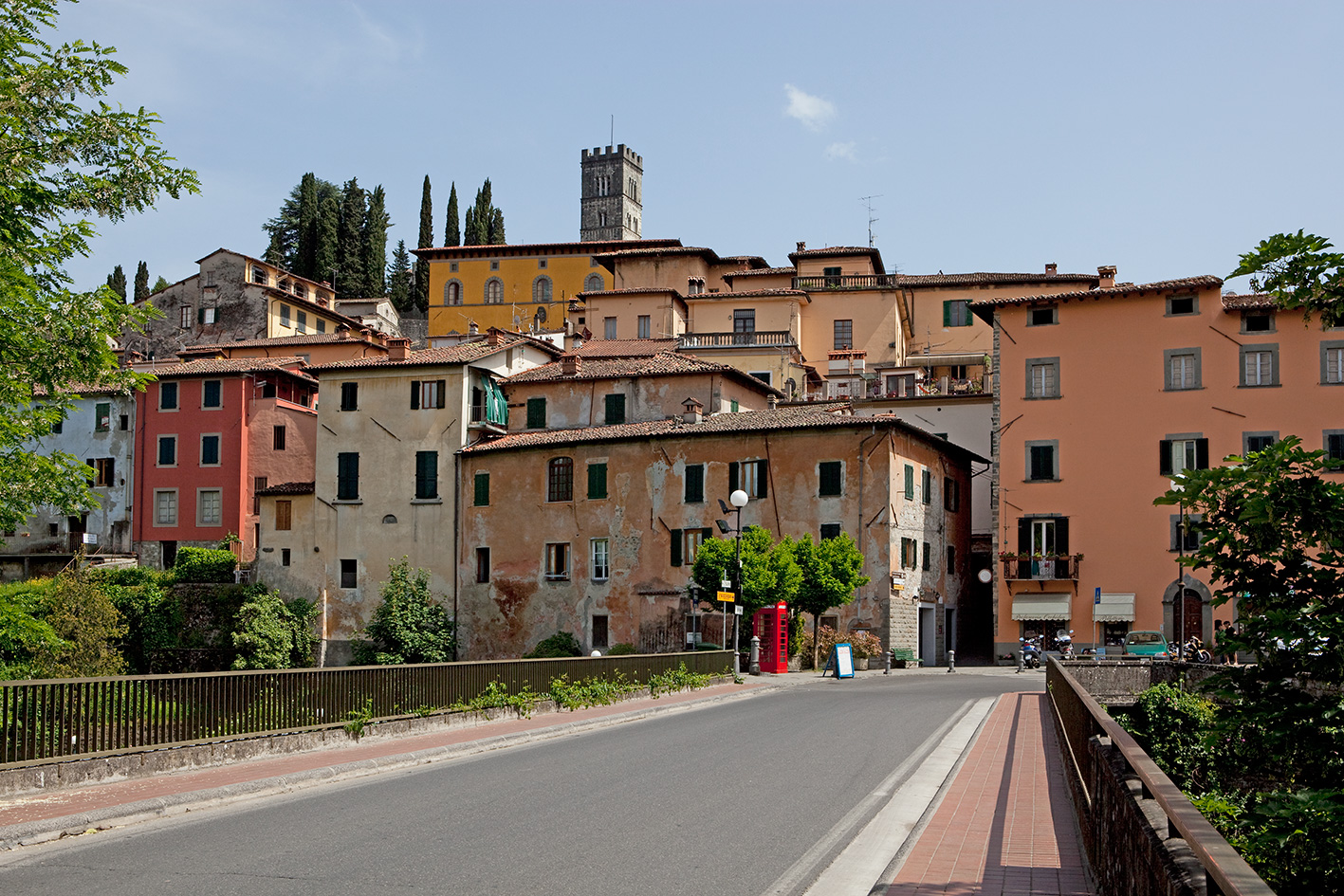 Barga, old town